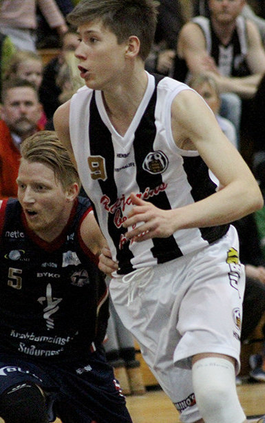 Þórir Þorbjarnarson, of KR, being defended by Keflavík's Arnar Jónsson during a Úrvalsdeild karla game on January 29, 2015.